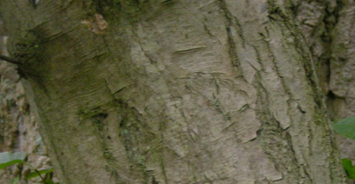 Bark of the American Hornbeamen (Carpinus caroliniana en ). Species identification performed by the Pennsylvania Department of Conservation and Natural Resources. Photo taken at the Ridley Creek State Park.